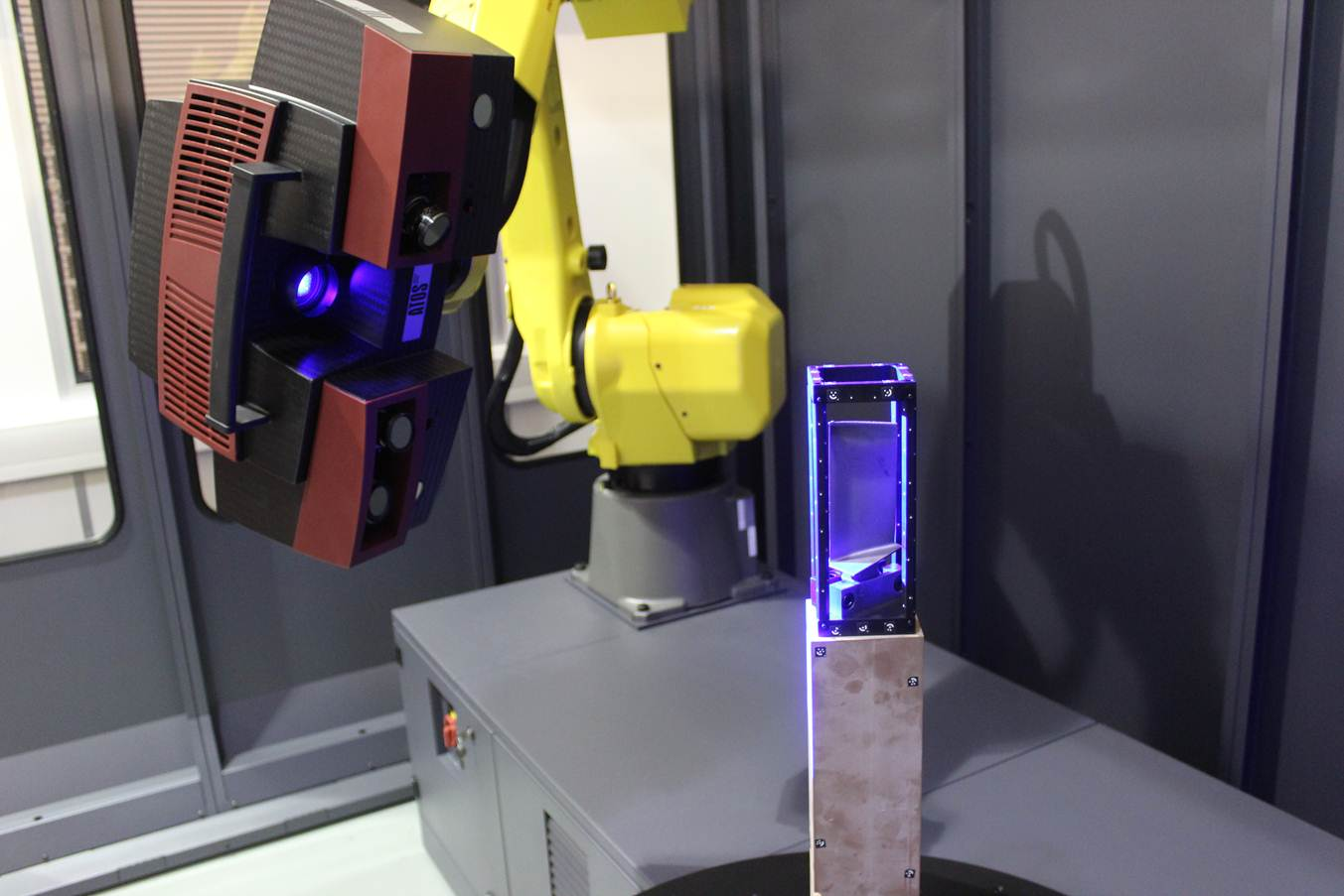 Robot Scan programmed by PowerINSPECT software